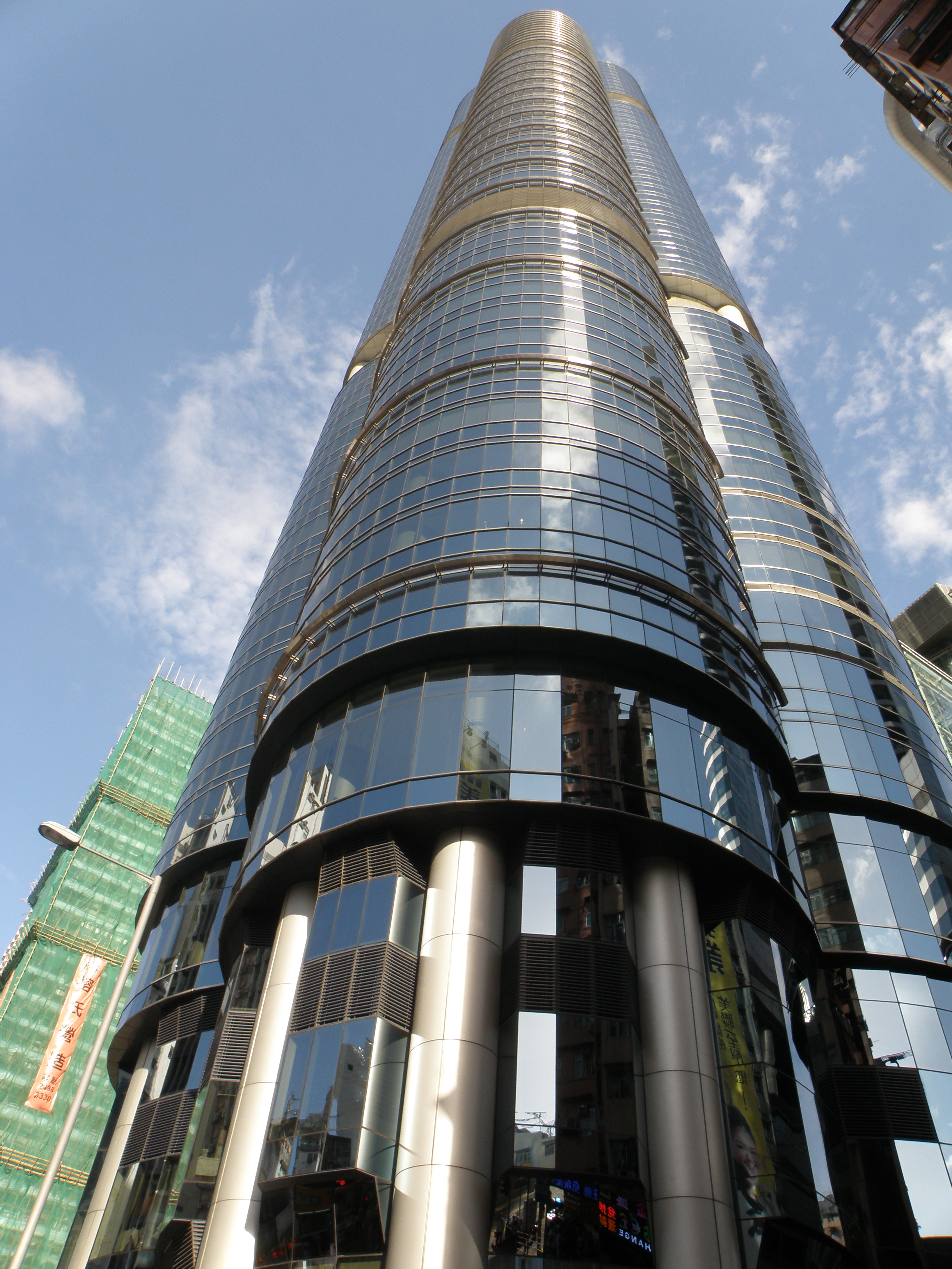 Langham Place Office Tower in Mong Kok, Hong Kong.